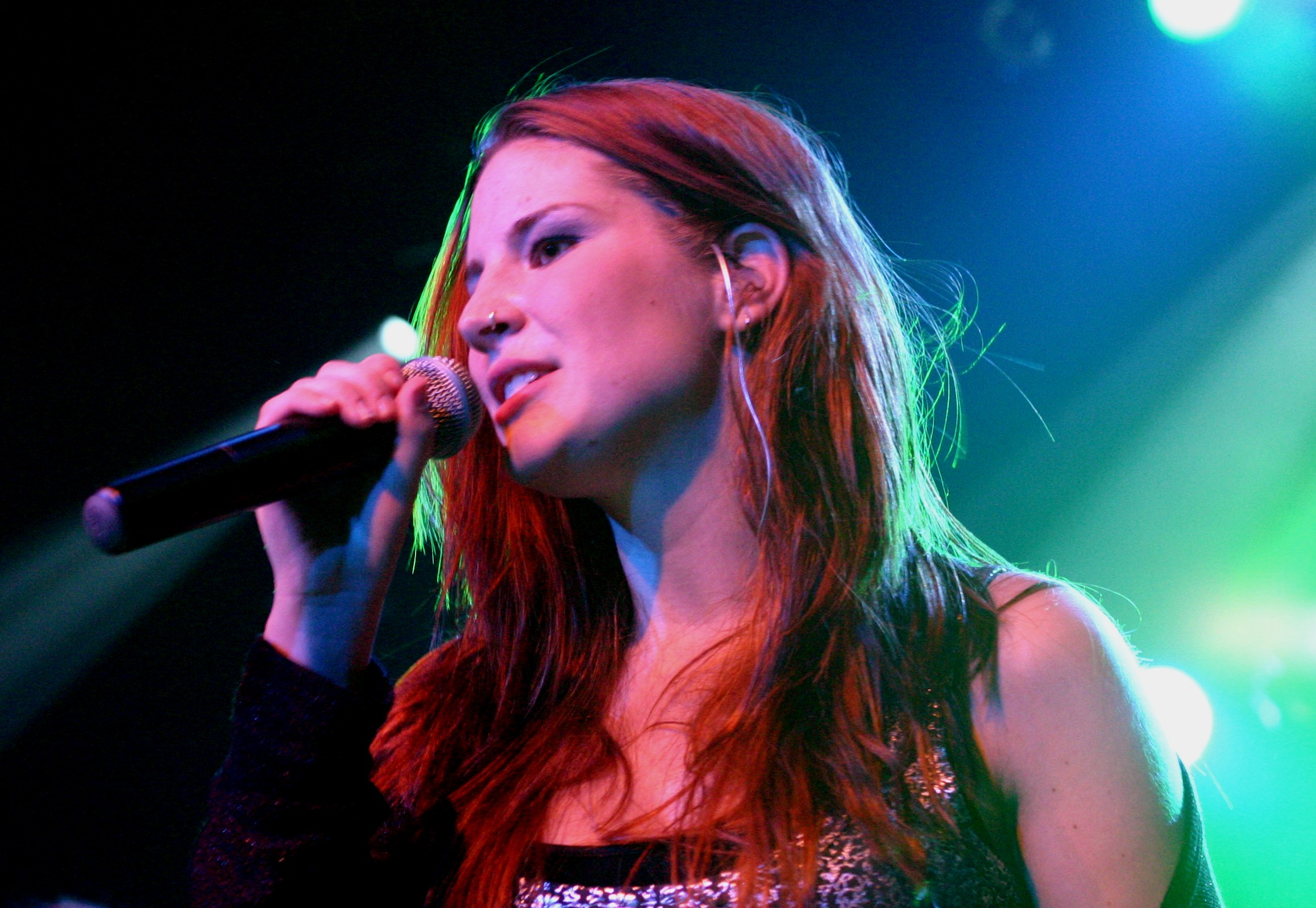 Singer Charlotte Wessels from the Dutch gothic metalband Delain. Picture token at the P60 gig in the city of Amstelveen.